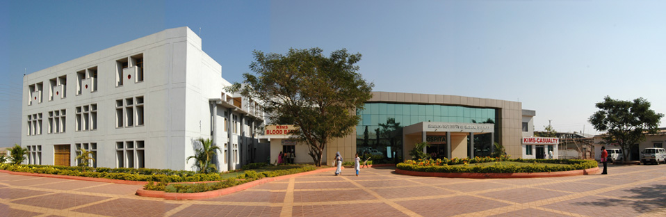 KIMS Karad